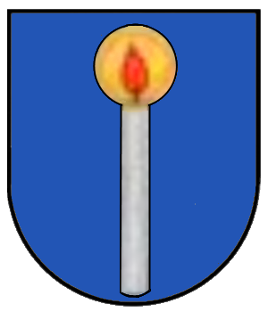 Coat of arms of Waelde Loßburg